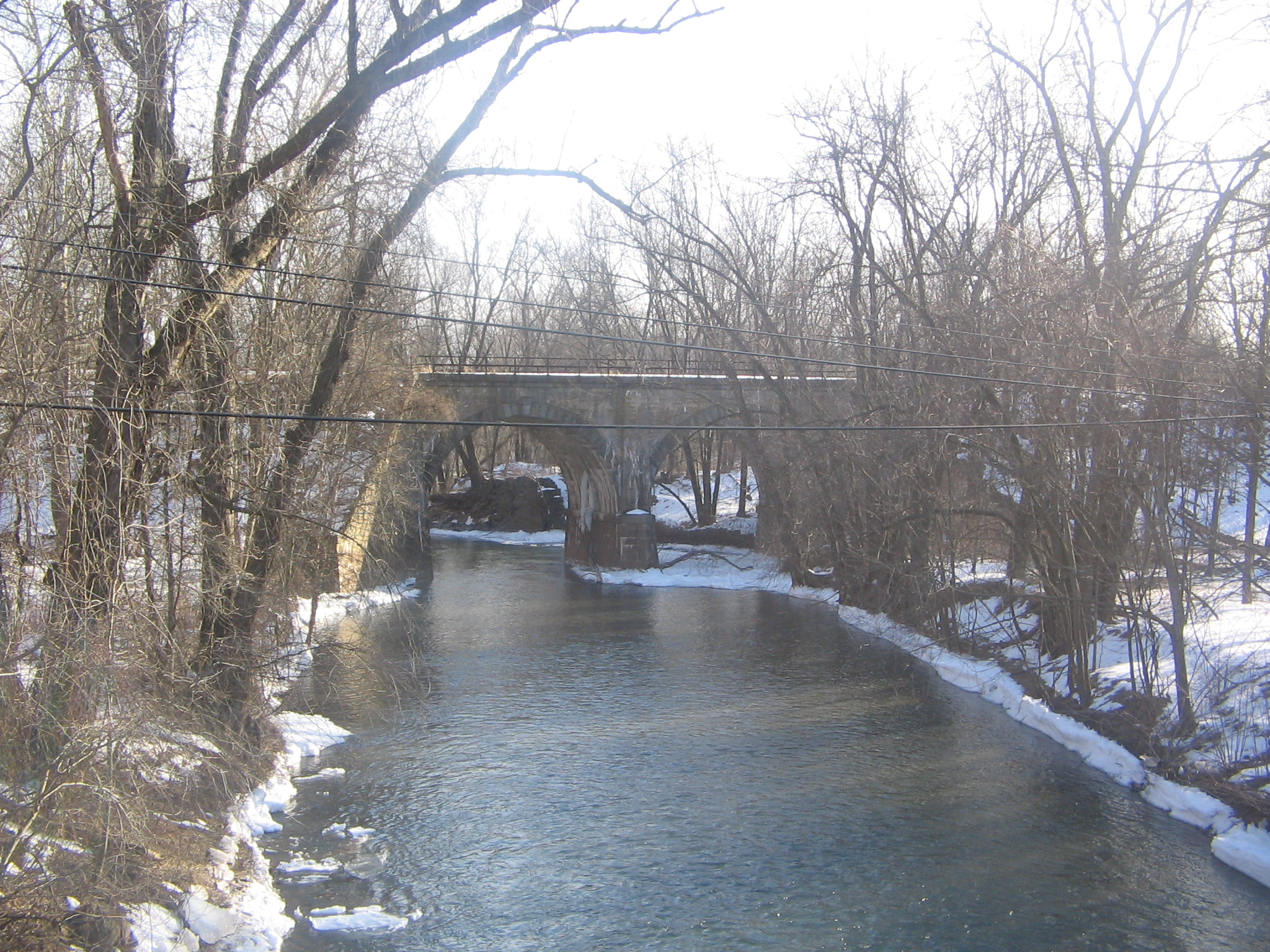 Larrys Creek near mouth, looking south to Railroad Bridge from US Route 220 Bridge, in Piatt Township, Lycoming County, Pennsylvania, USA.